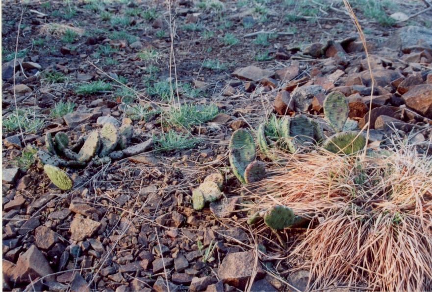 Prickly Pear Cactus. Endangered species, traprock mountain ridge, Connecticut. Microclimate ecosystem. Exact location withheld to protect species. Photo by Paul W. Gagnon, 2002.